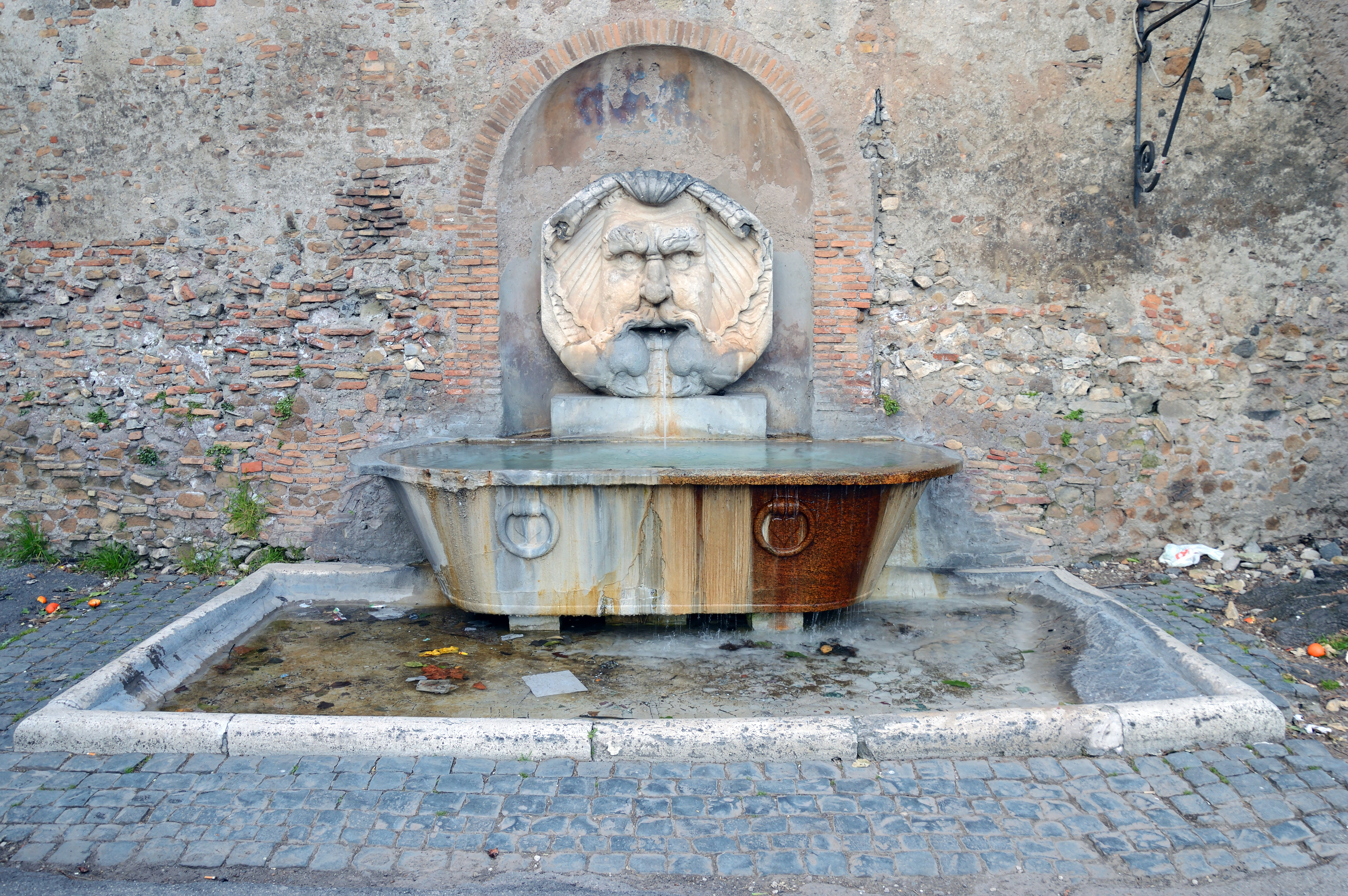 Fontana del Mascherone di Santa Sabina